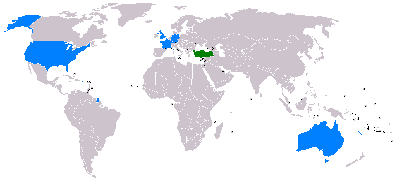 Dark green - diplomatic relations; blue - official representation in Northern Cyprus